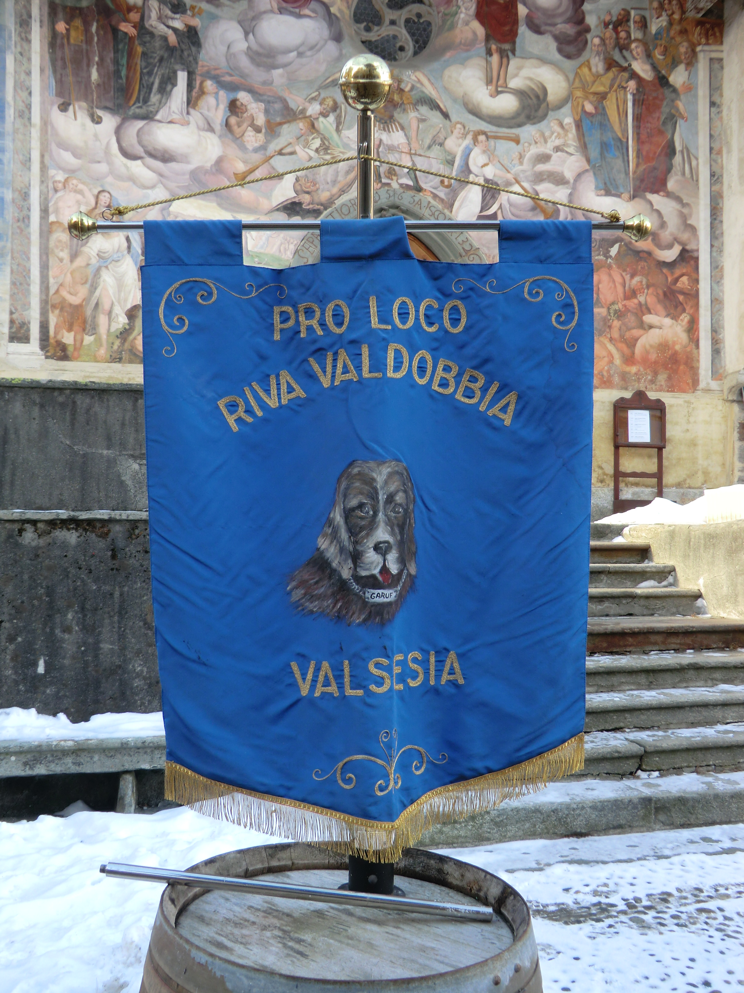 The "Garuf", the hunting dog symbol of Riva Valdobbia community, on an old banner/standard of the Pro Loco Organization (Pro Loco is latin: Pro, in behalf of + Loco: location, place, town - )